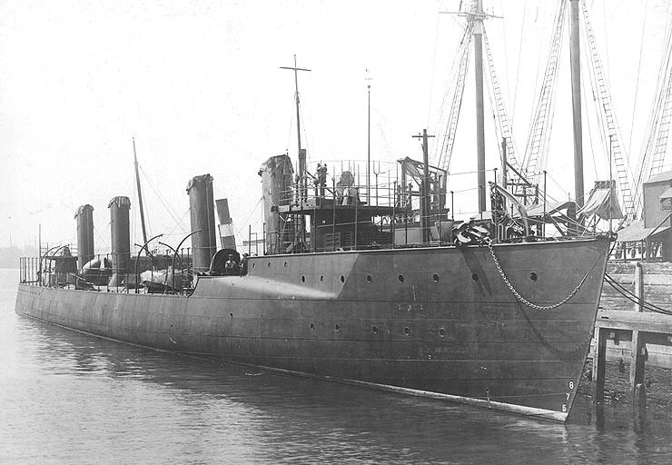 USS Barry (Destroyer #2). Photographed in port soon after completion, circa 1902-1903. U.S. Naval History